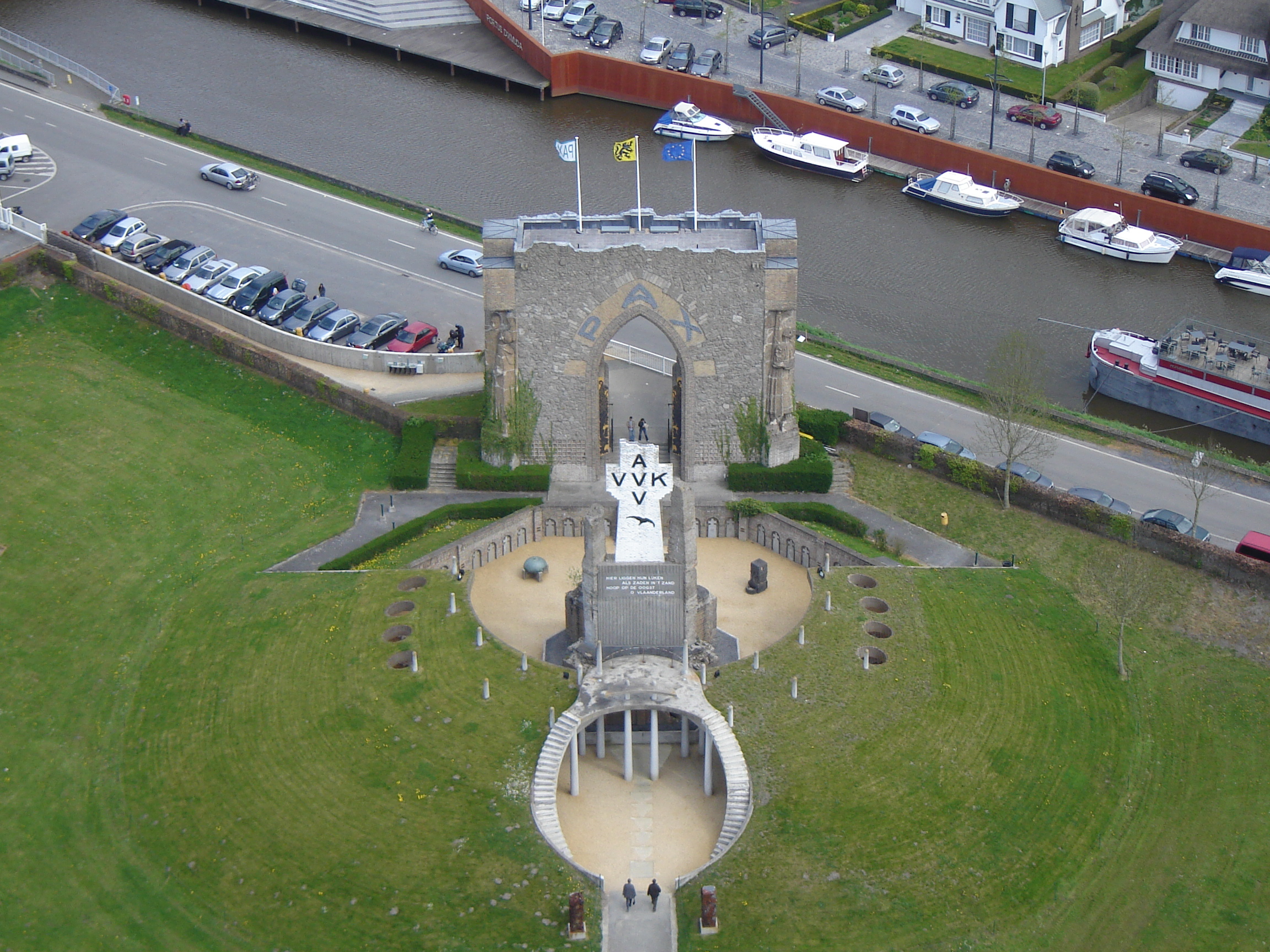 Paxpoort gate and the crypt of the IJzertoren, seen from on top of the IJzertoren tower in Kaaskerke. Along the river IJzer. Kaaskerke, Diksmuide, West Flanders, Belgium